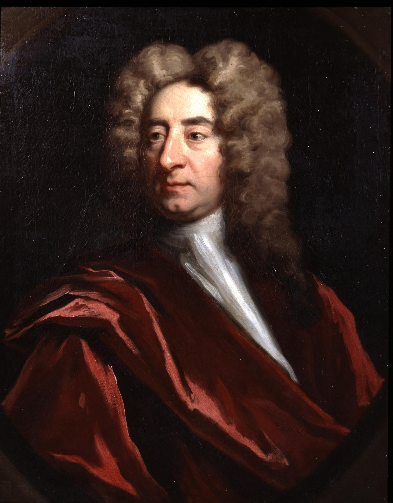 Unidentified man possibly identified as Daniel Finch, 2nd Earl of Nottingham (1647-1730)